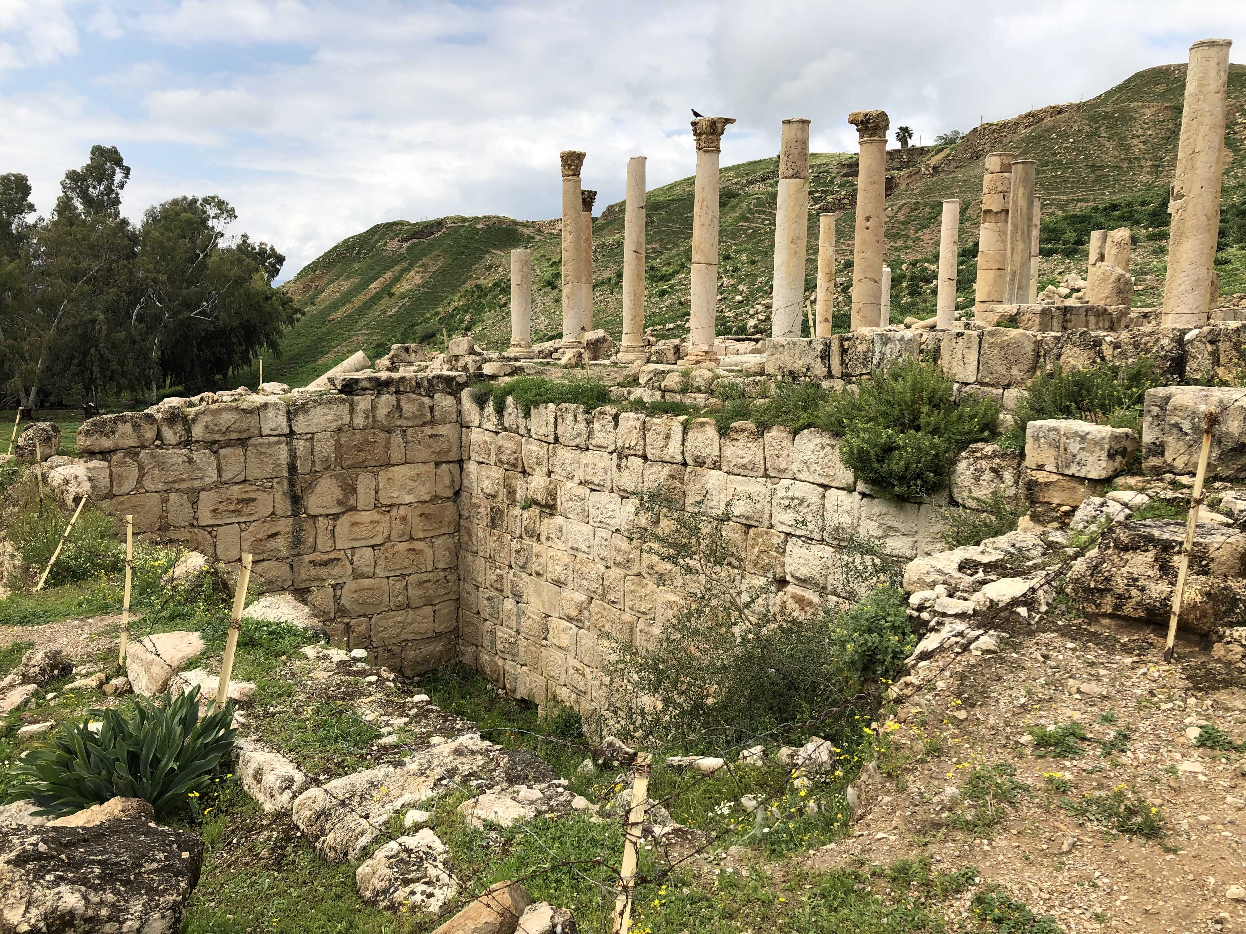 Pella basilica platform